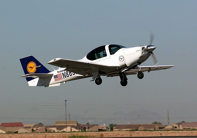 The Grob G 120A is a single engine, two seat training aircraft.